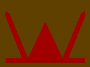 53rd Welsh Division Insigna